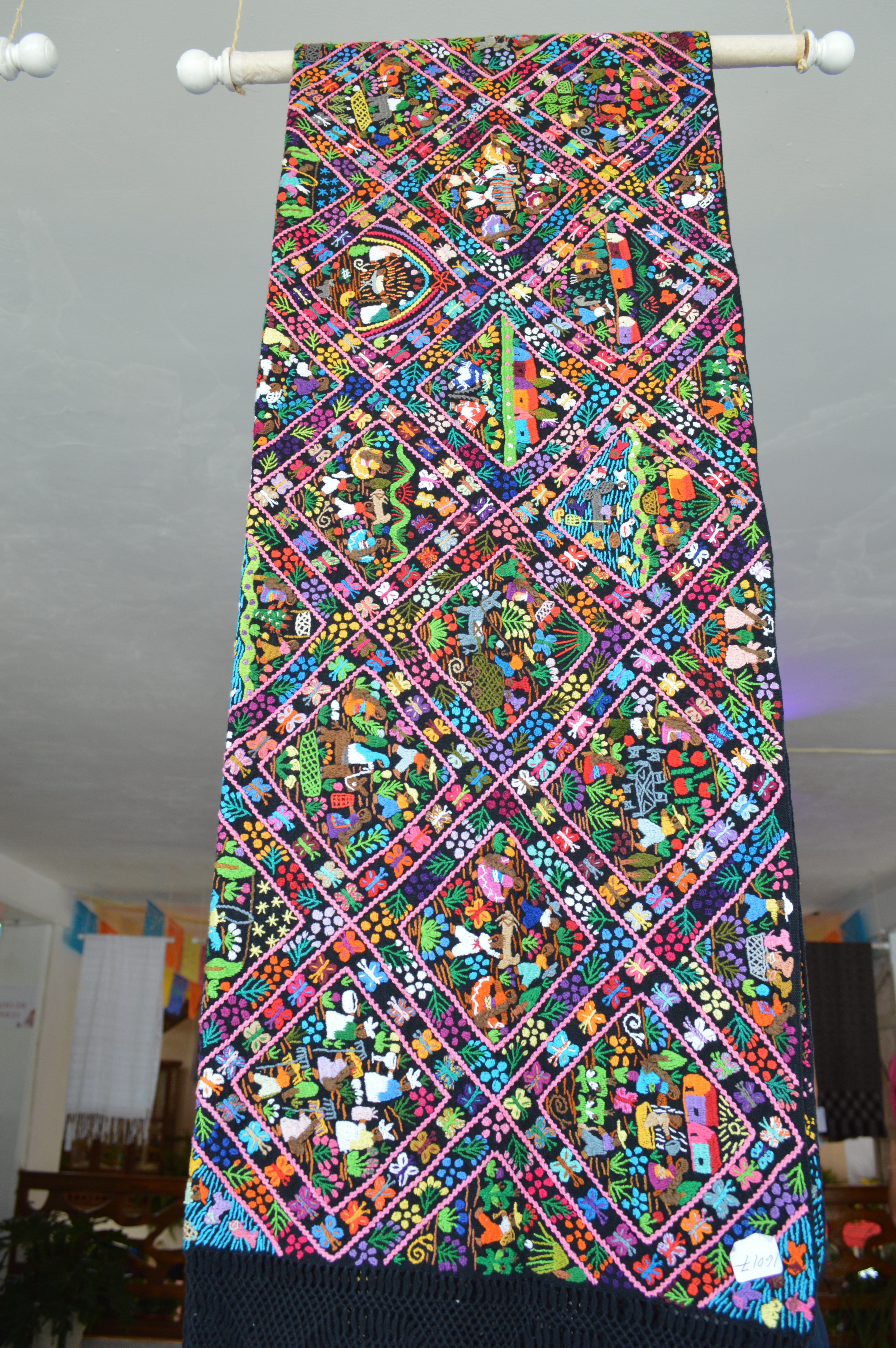 Heavily embroidered rebozo by Maria Cristina Barriga of Tzintzuntzan, Michoacan at the Feria de Rebozo in Tenancingo, Mexico State, Mexico